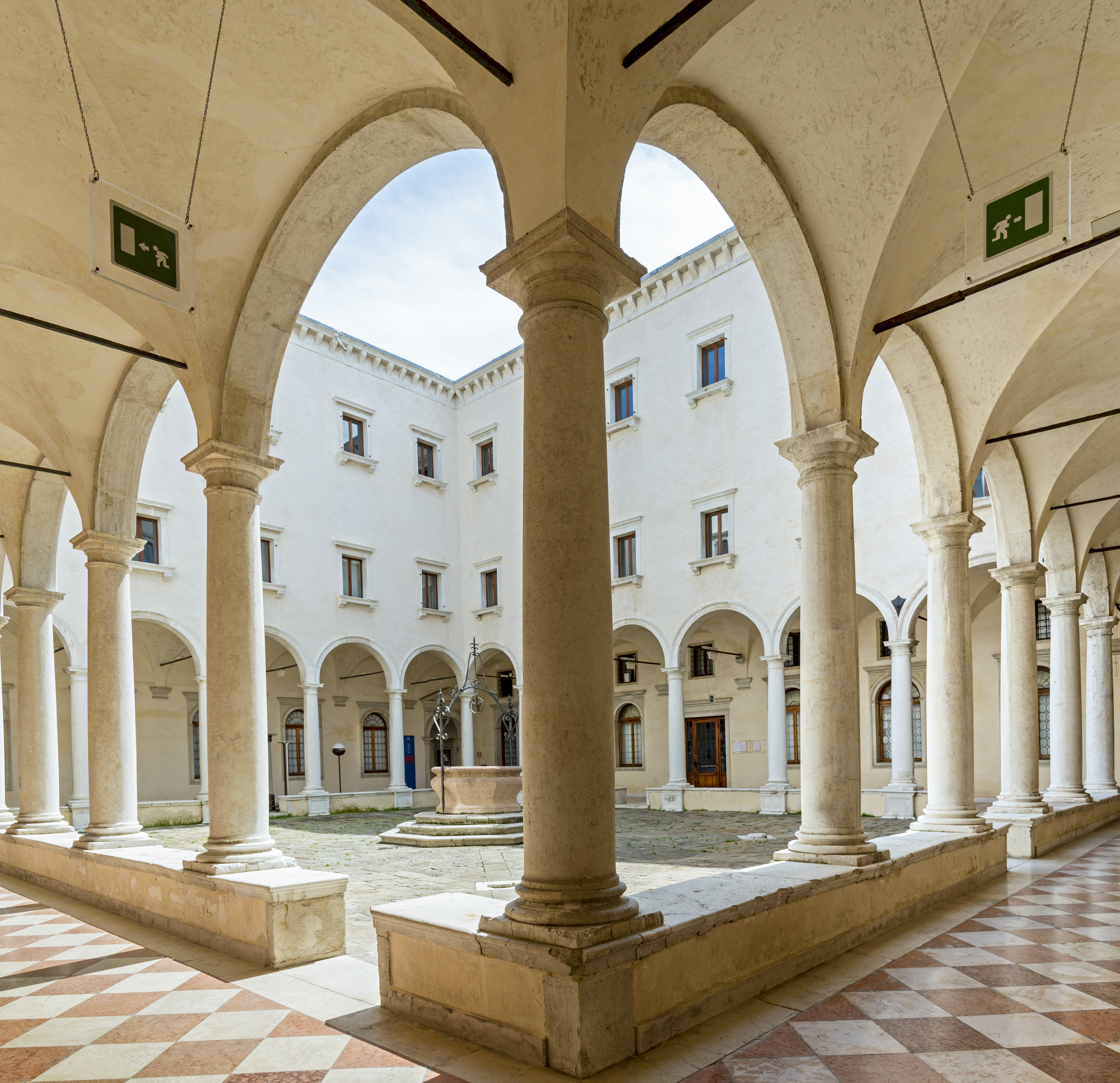 San Salvador, Venice Facade - The first cloister